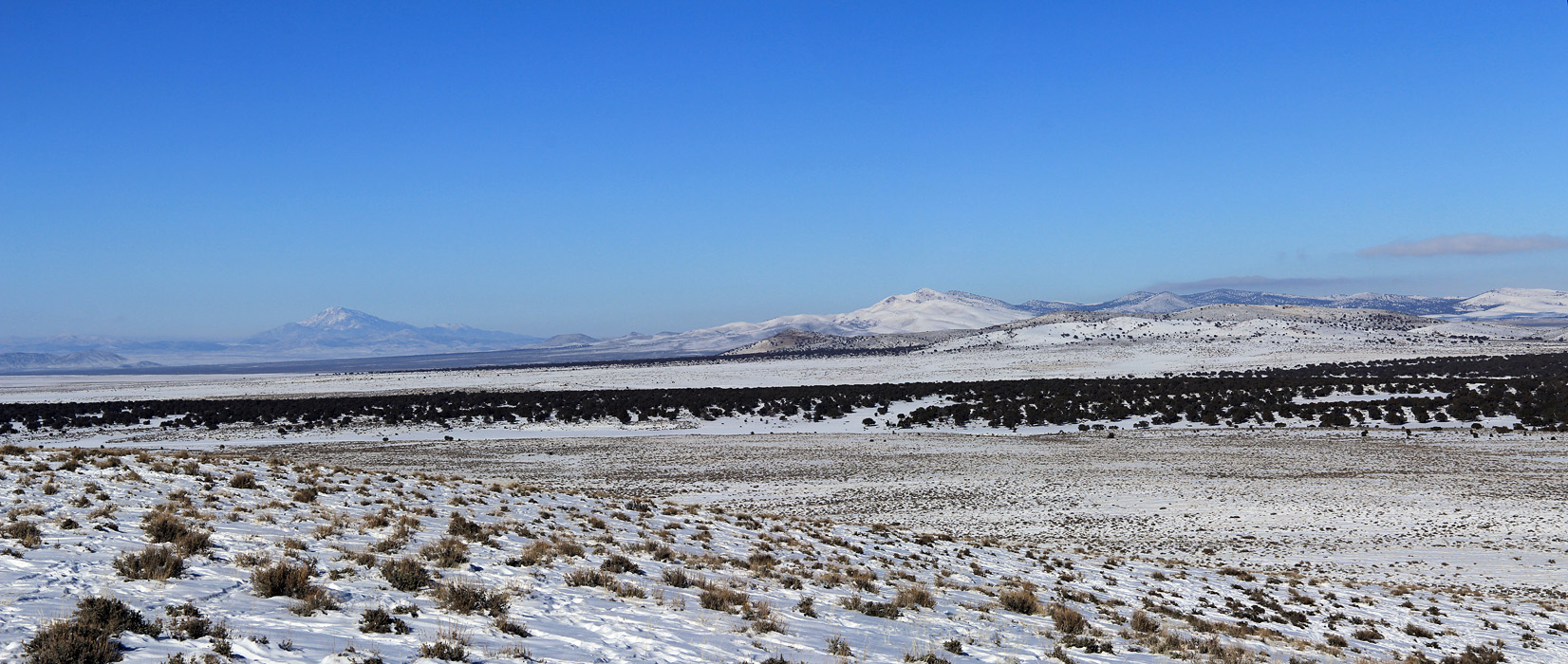 Looking southwest over the Escalante Desert from the high point on the Lund Highway.